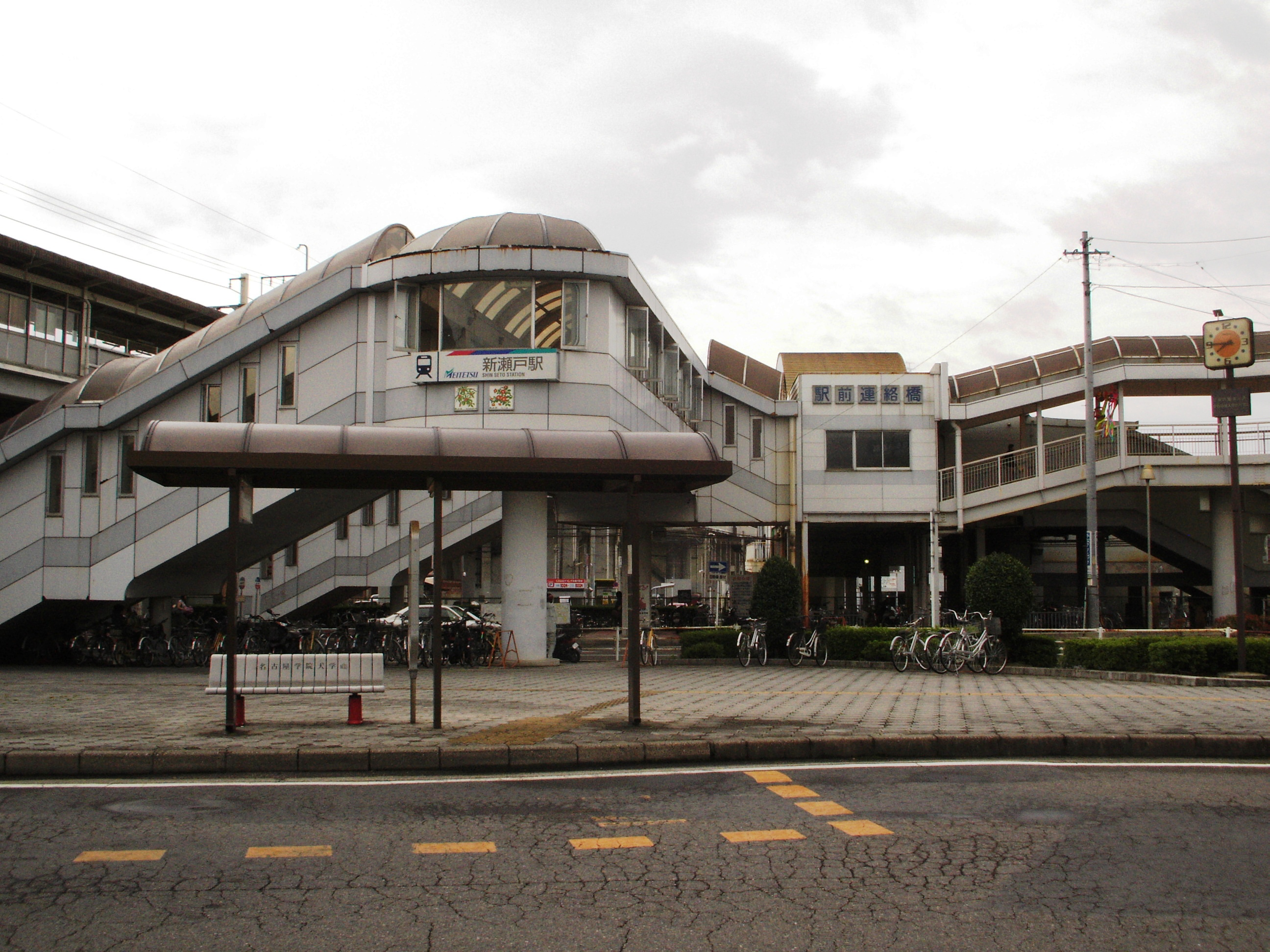 North Exit, Shin-Seto Station, Seto, Aichi, Japan